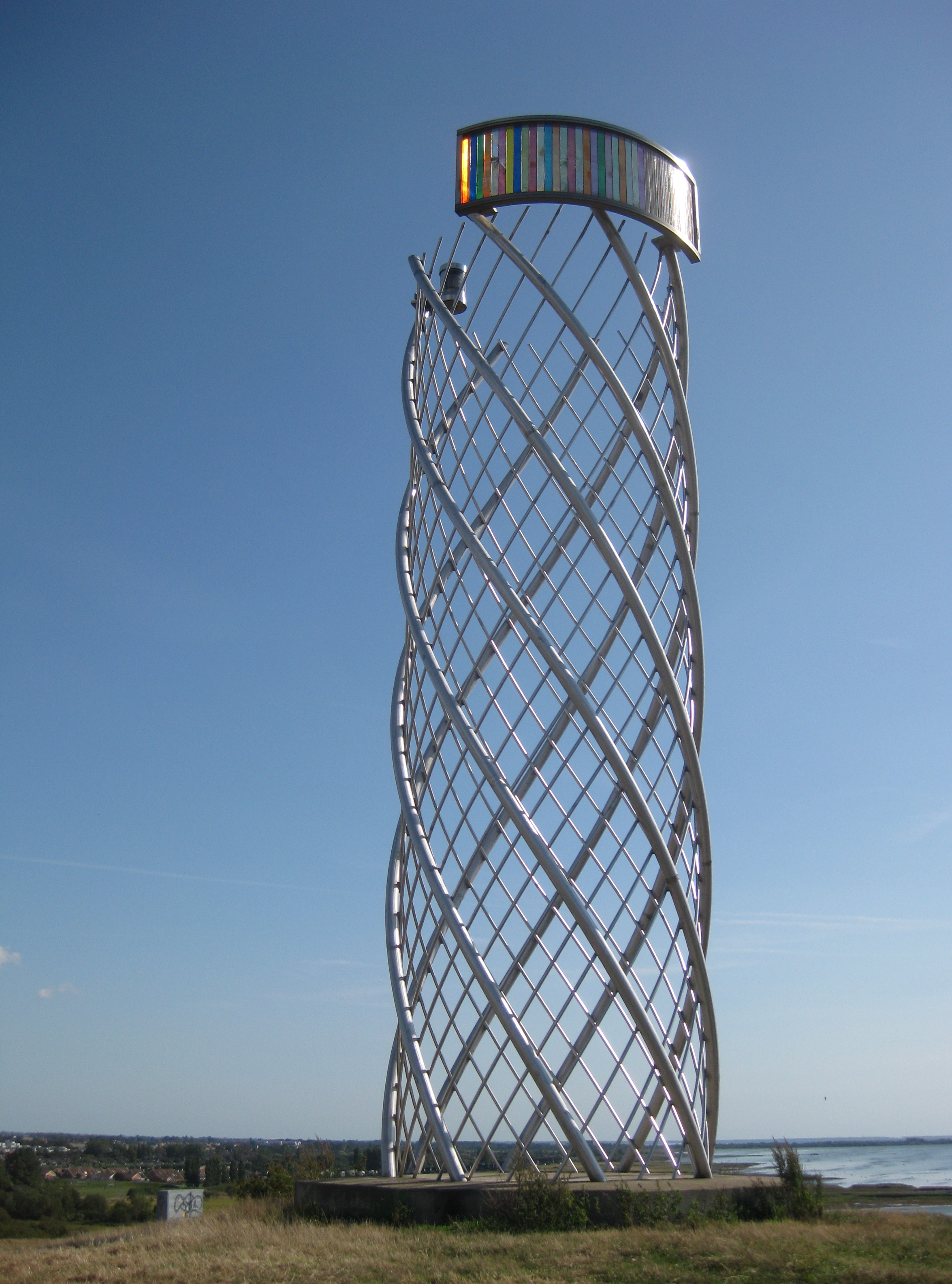 The sculpture Movement meter for Lernacken - Tower (Olafur Eliasson, 2000) at Lernacken in Malmö, Sweden.